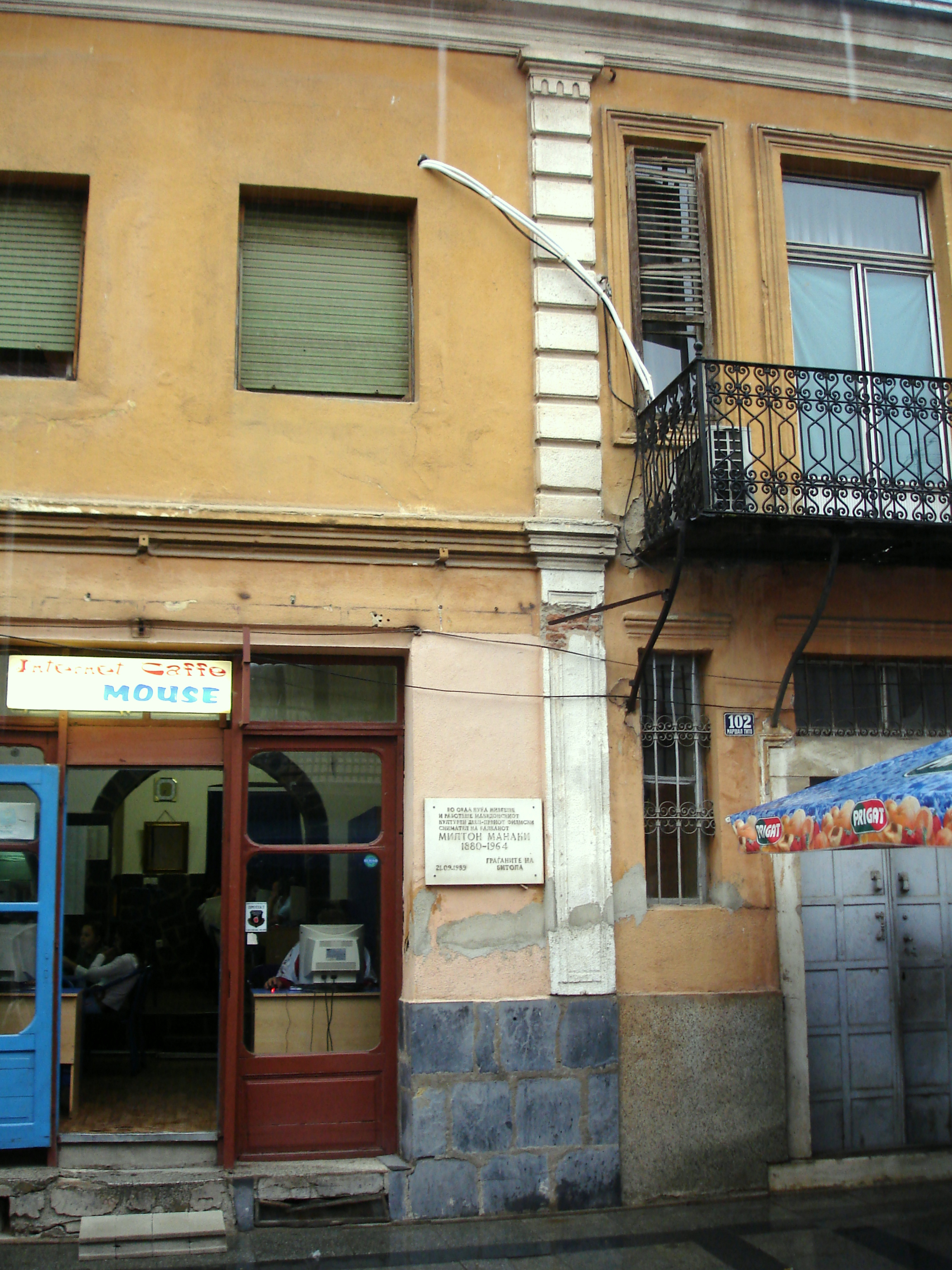 Miltos Manakis house, pioneer cinematographer in the Balkans, Bitola, Republic of Macedonia.